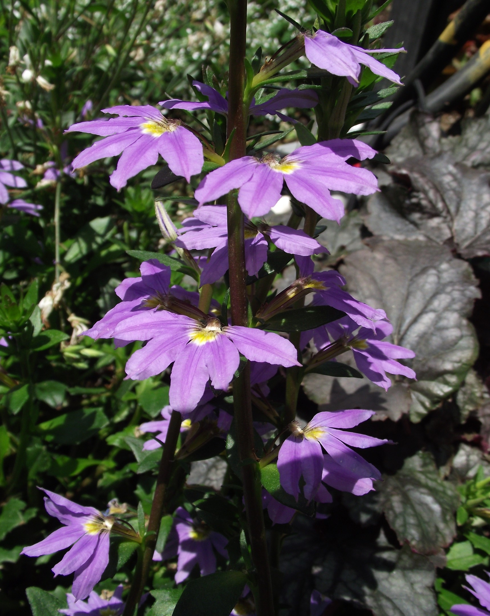 Scaevola aemula 'New Wonder' at the San Diego County Fair, California, USA. Identified by exhibitor's sign.